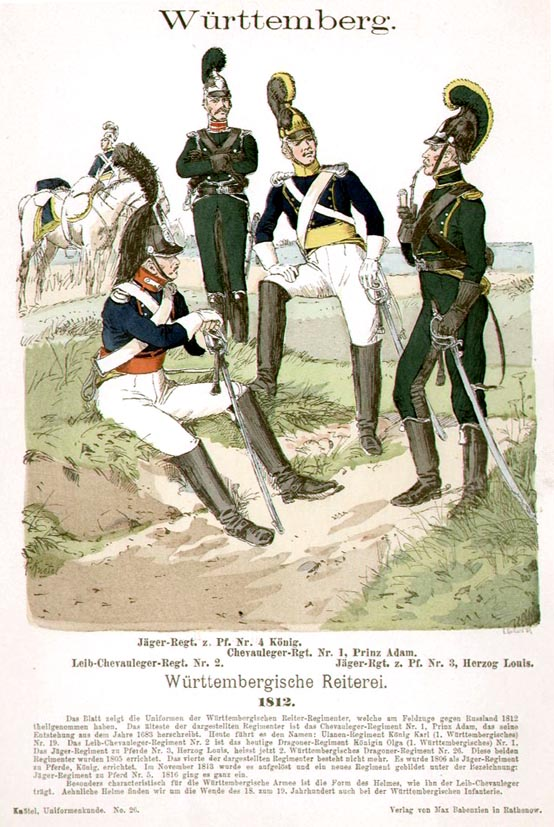 Württemberg. Kavallerie. 1812